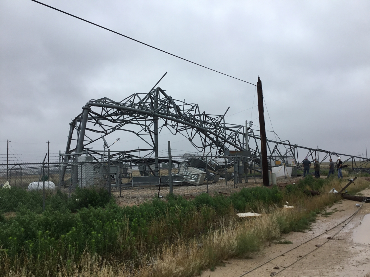 EF2 damage to a cell phone tower and power poles in Plainview, Texas.